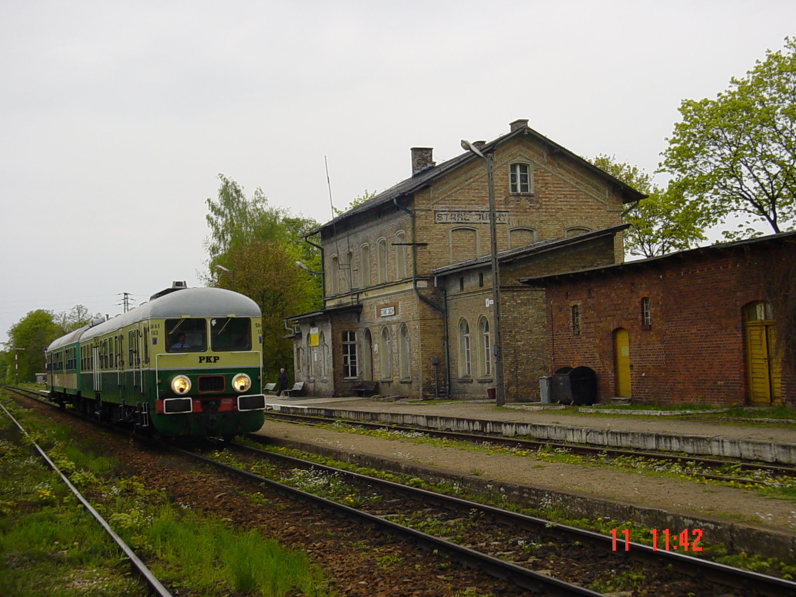 Tourist train (diesel railcar SN61) in Stare Juchy, Poland, on route 38.